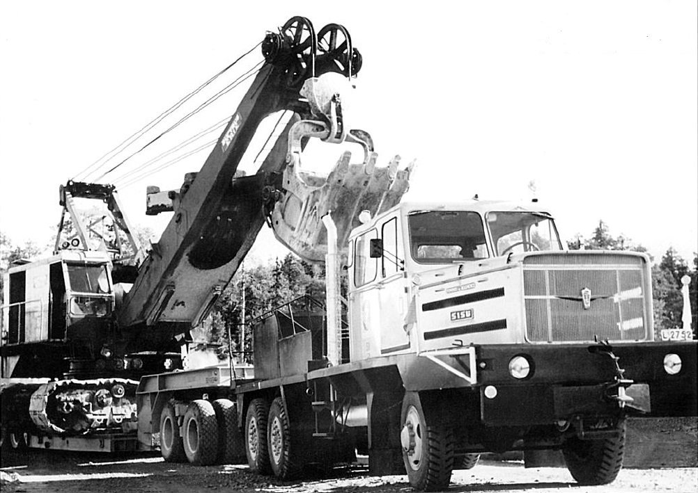 Sisu K-50SS towing Bucyrus-Erie 88-B.